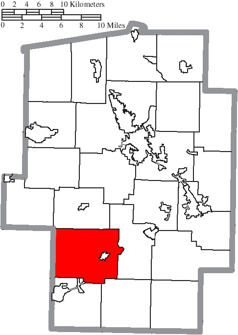 Map of the municipal and township boundaries of Tuscarawas County, Ohio, United States, as of the 2000 census, with the location of Salem Township highlighted. Township borders are shown only in unincorporated areas in order to differentiate incorporated and unincorporated areas more clearly.